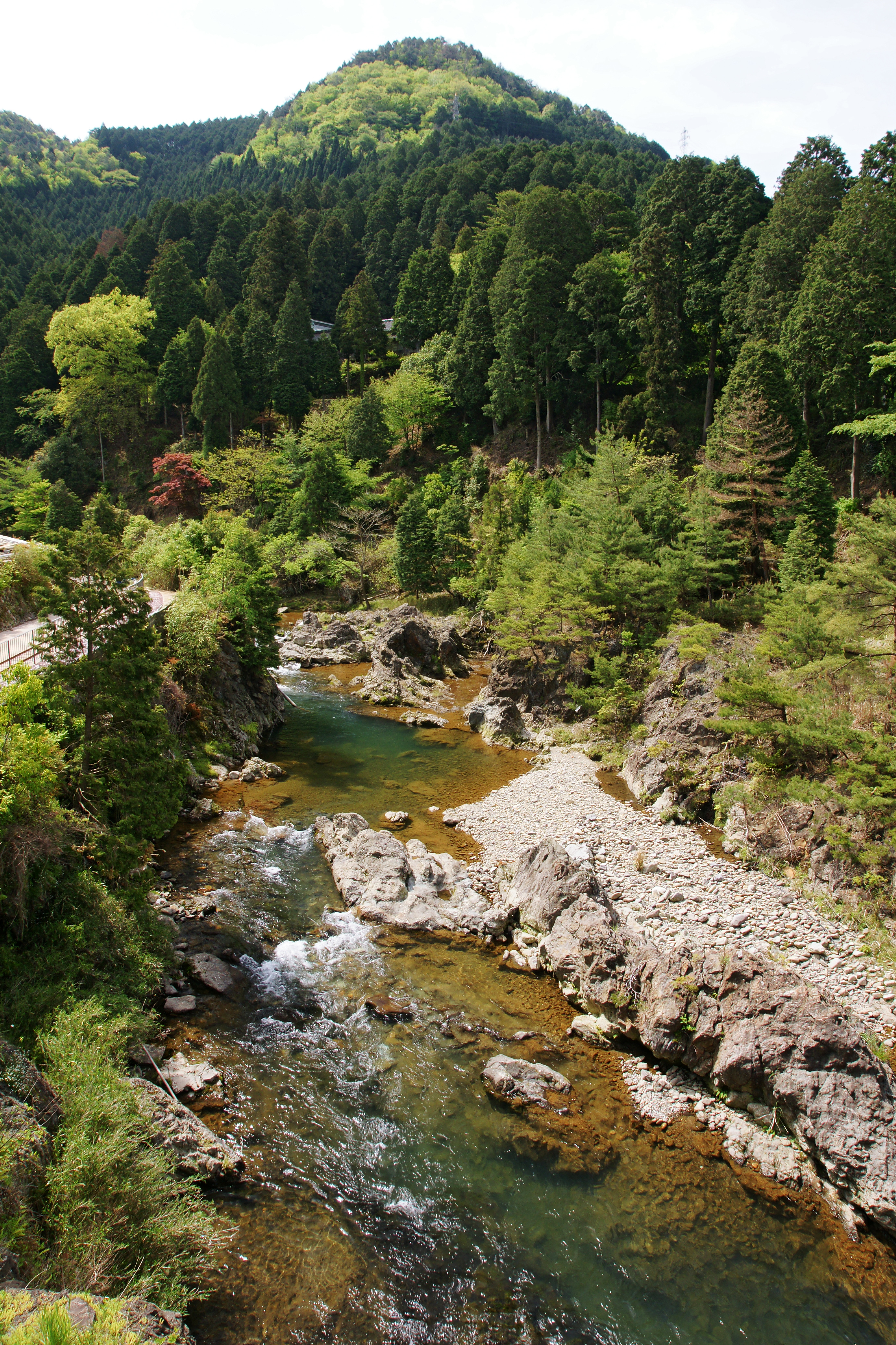 Ichi River at Kuchiganaya, Ikuno, Asago, Hyogo prefecture, Japan.